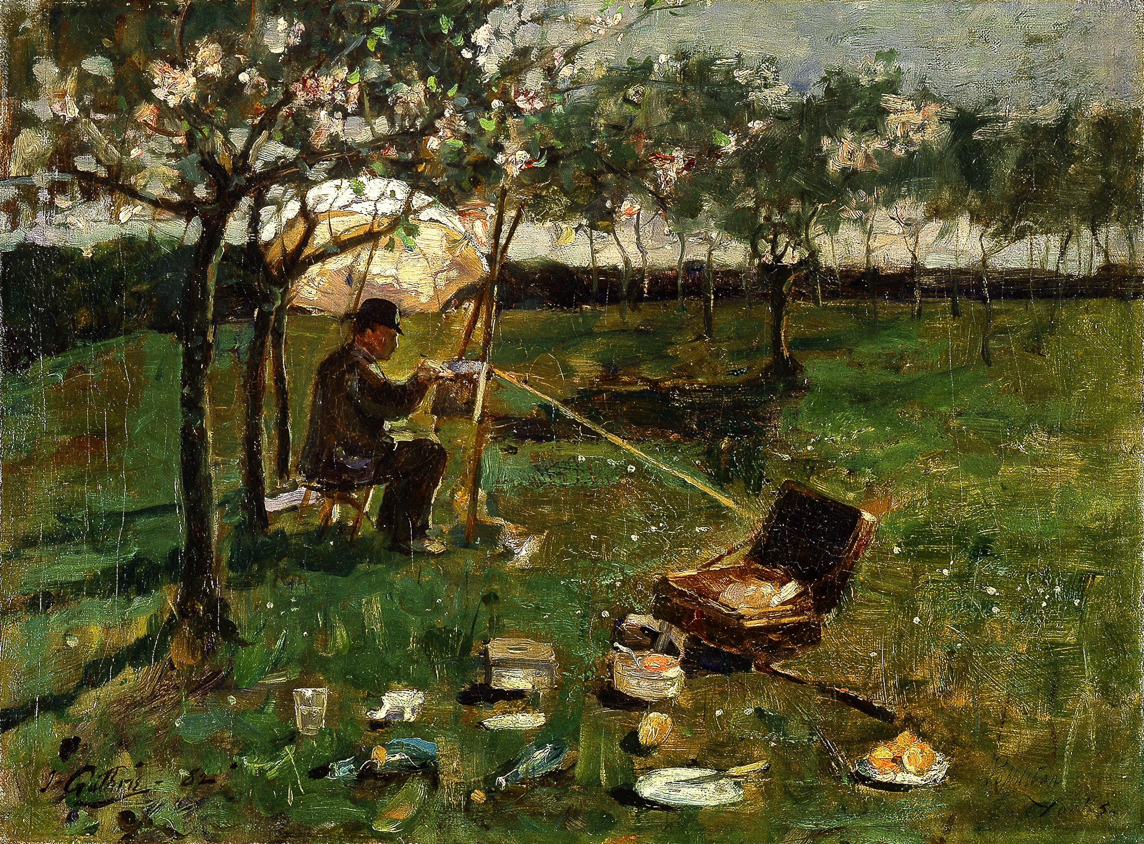 Poppleton